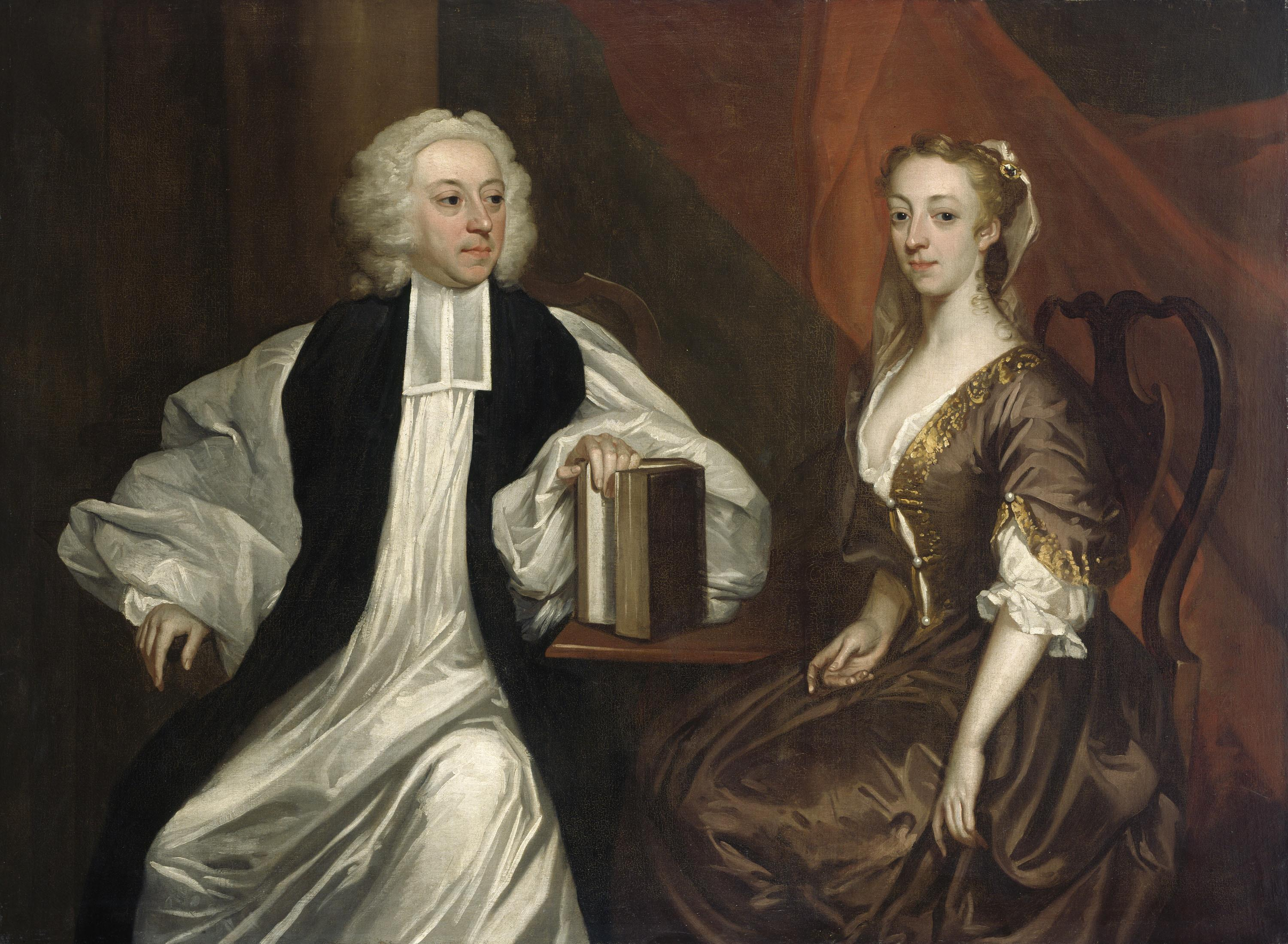 Portrait of Bishop Robert Clayton (1695-1758) with his wife Katherine.